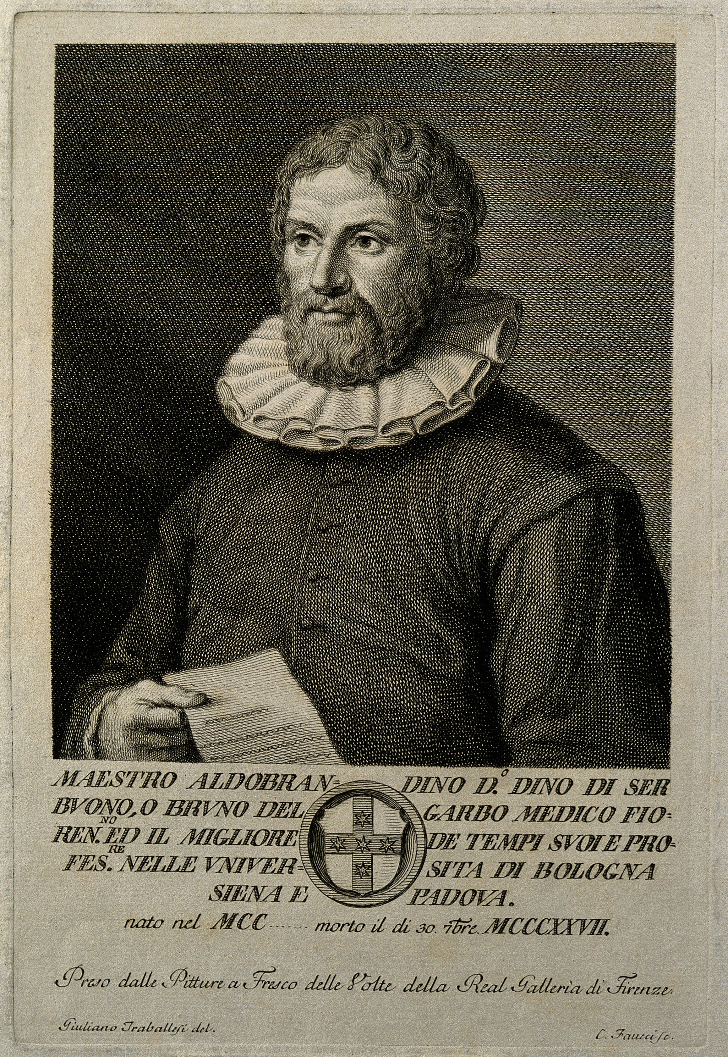 Aldobrandino da Siena. Line engraving by C. Faucci after G. Traballesi. Iconographic Collections Keywords: engravings; Carlo Faucci; portrait prints; aldobrandino da siena, fl.13th; Aldobrandino da Siena; Giulio Traballesi